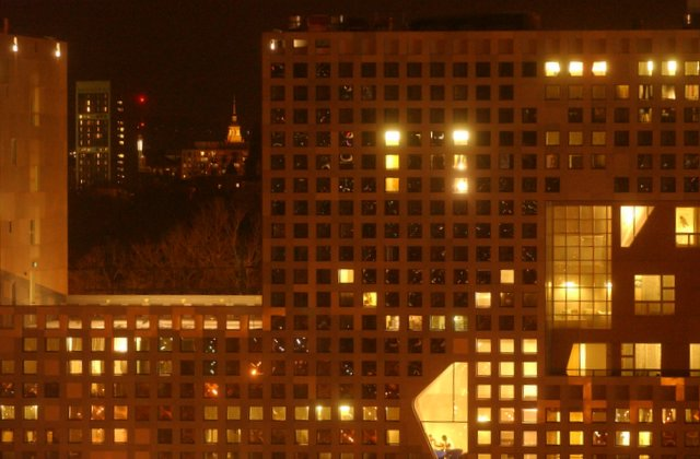 Residents of MIT's Simmons Hall collaborated to make a smiley face on the building's facade.